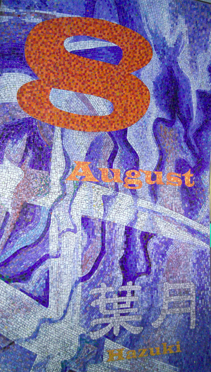 Mural Hachigatsu Hazuki Tokyo Metro Shin-Ochanomizu Station Tokyo Japan I contribute my rights in this photo to the public domain.